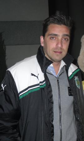 Beto as member of staff CP Sporting in 2012.